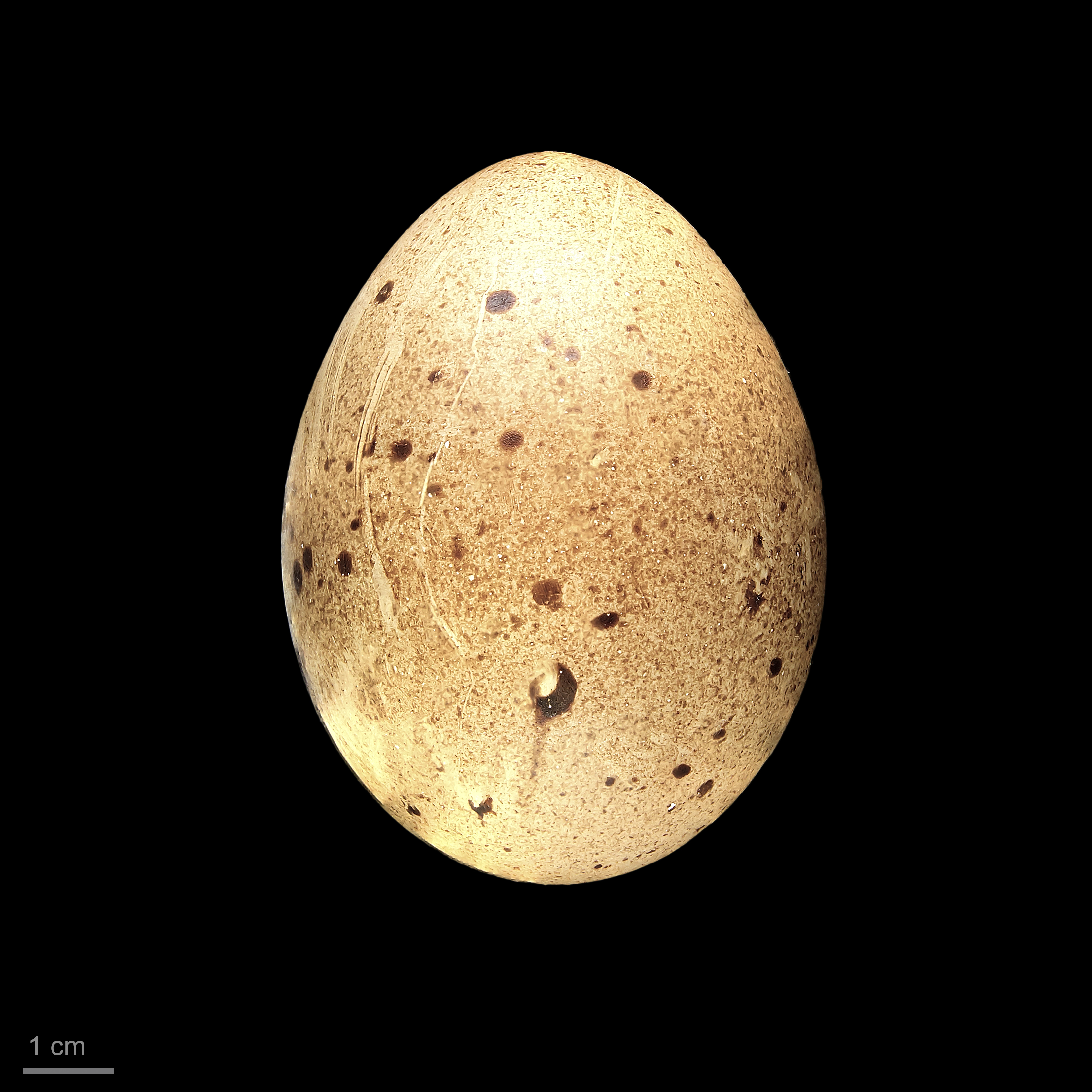 Egg of crimson horned pheasant Collection of Jacques Perrin de Brichambaut.